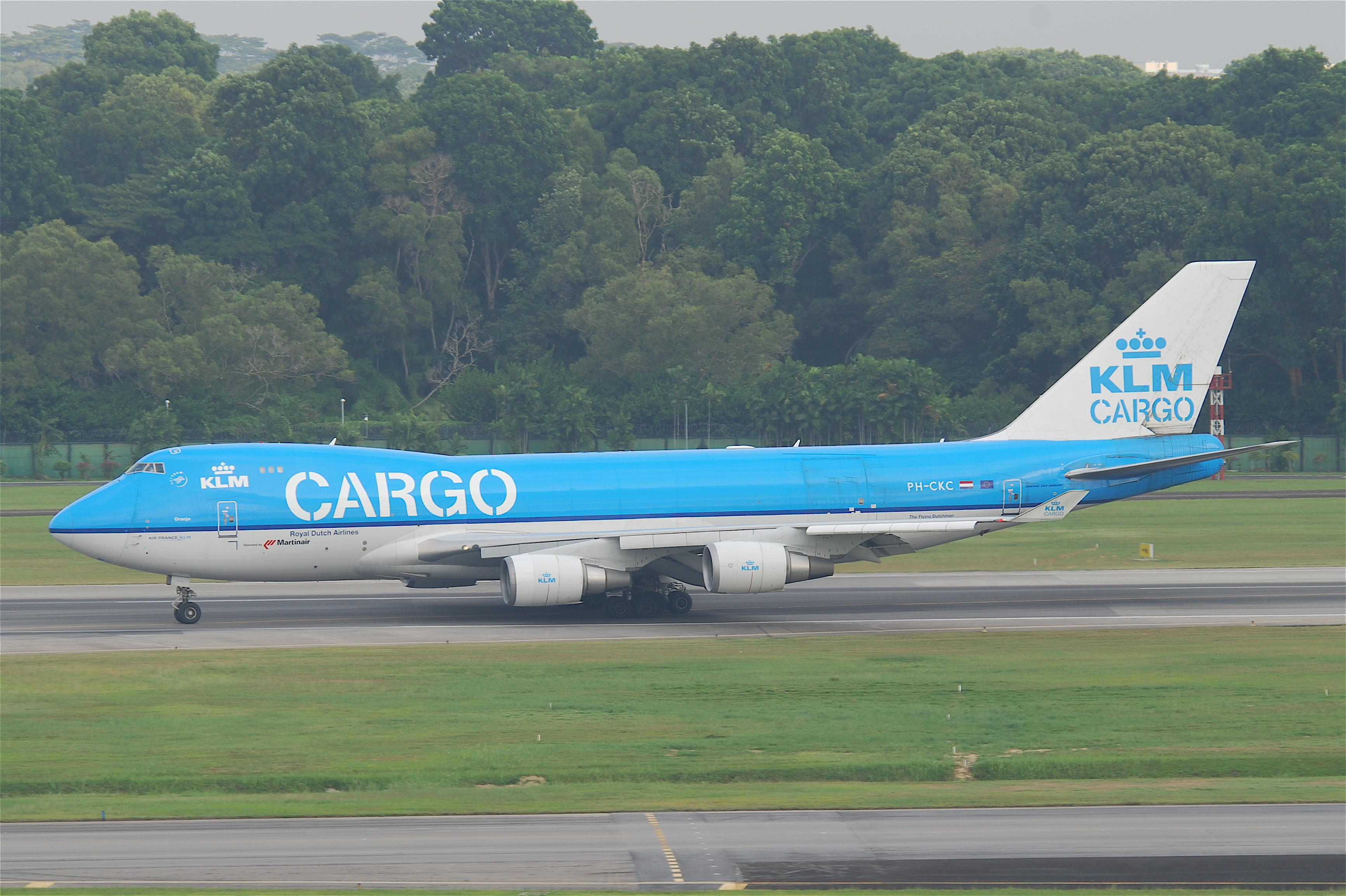 KLM Cargo Boeing 747-400ER (F); PH-CKC@SIN;07.08.2011/617dh